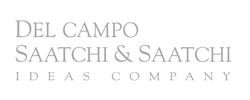 Del Campo Saatchi Saatchi